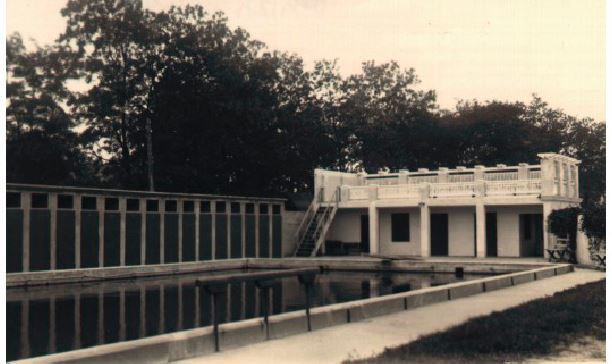 Racing swimming pool has been built first in Dorog out of capital city in 1923